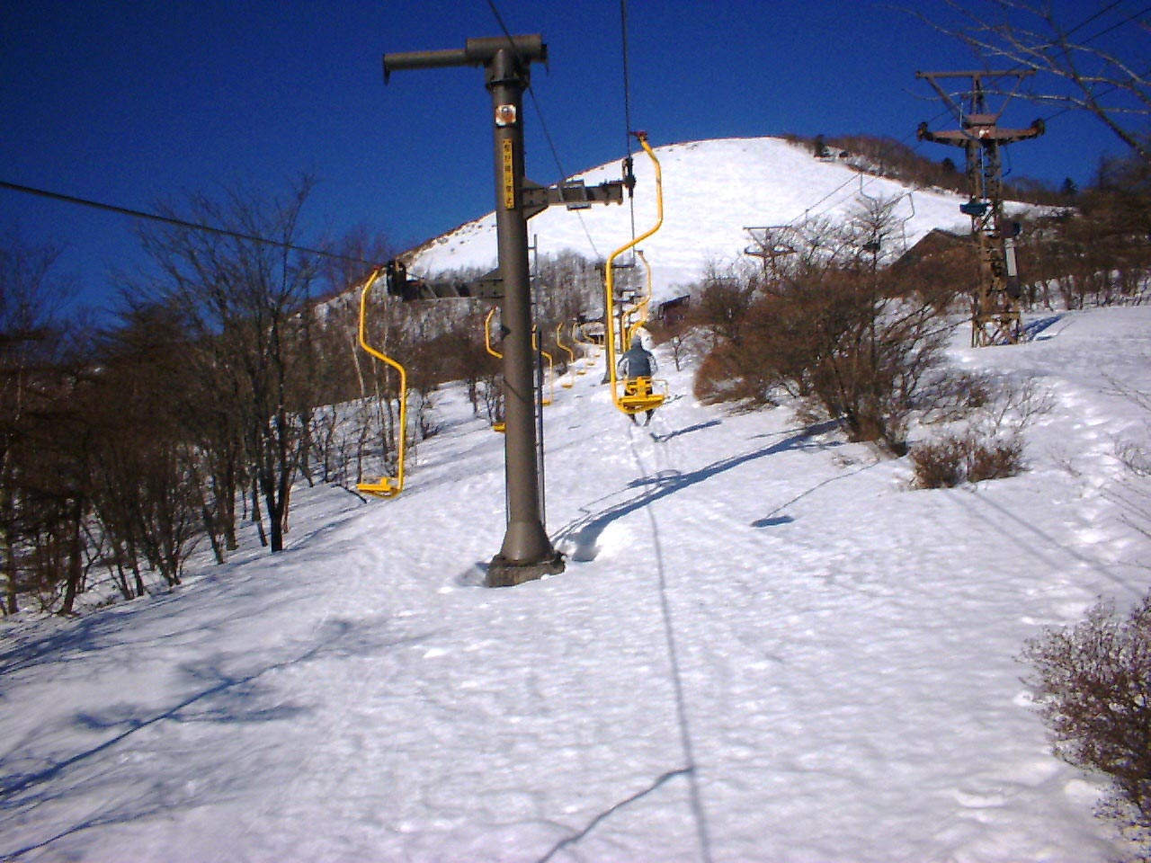 Kirifuri Kōgen Ski Resort